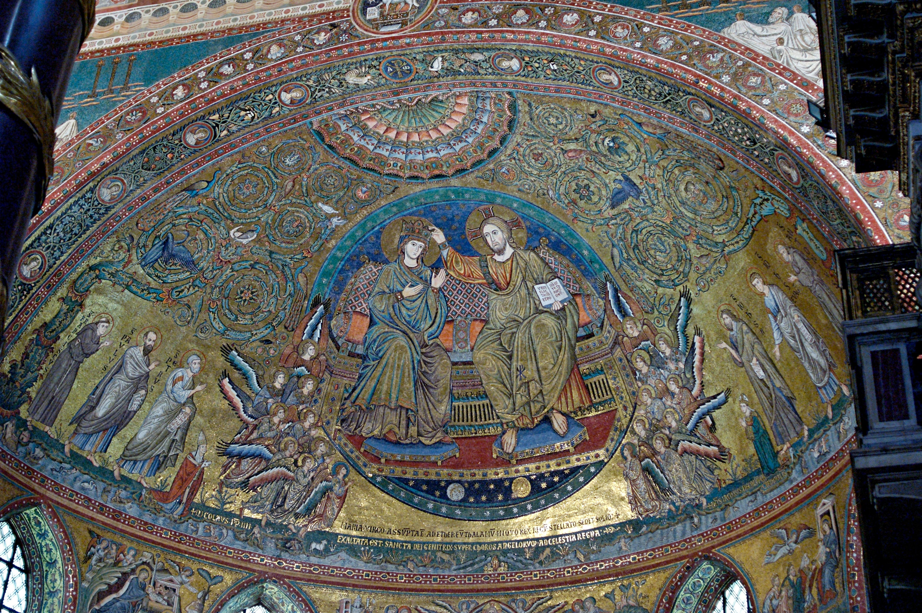 The coronation of the Virgin with angels, saints, Pope Nicolas IV and Cardinal Colonna. Apse mosaic in Basilica di Santa Maria Maggiore, by Jacopo Torriti (1295), with parts from the original mosaic (5th century).